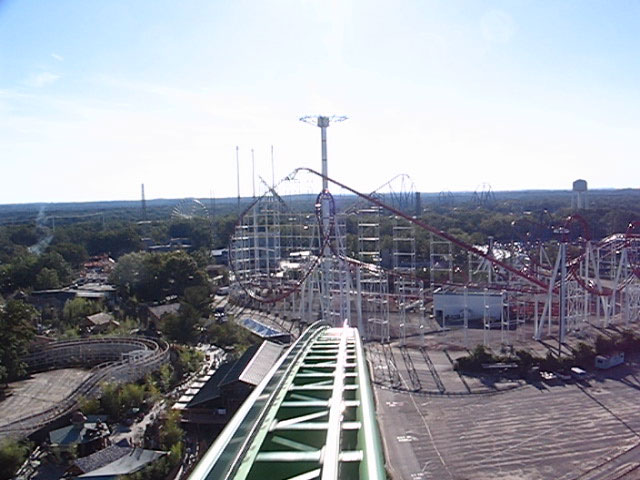 Taken from a point-of-view video that I made by sneaking my digital camera onto Kingda Ka. Several of the park's rides are visible, including Great American Scream Machine, Superman: Ultimate Flight, Rolling Thunder, and Nitro. Dusso Janladde 06:51, 10 October 2005 (UTC)